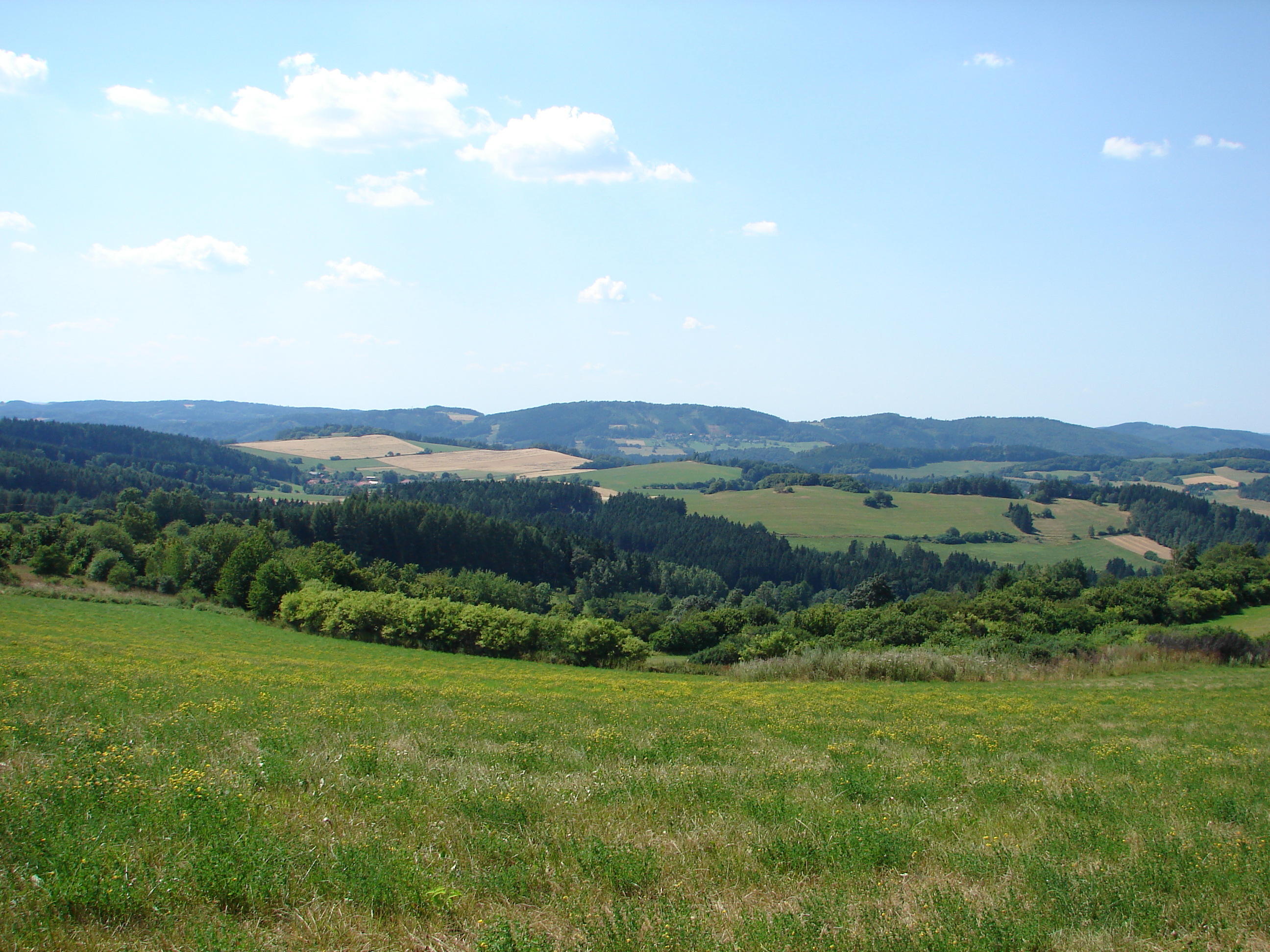 Nature park Svratecká hornatina, District Žďár nad Sázavou, Czech republic.